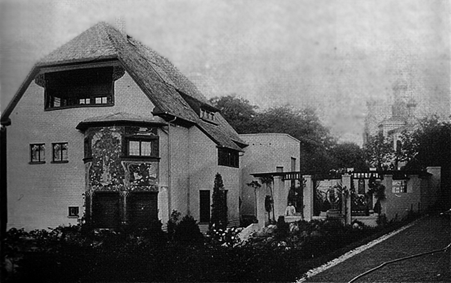 "Haus in Rosen" (House in Roses) on the Mathildenhöhe in Darmstadt